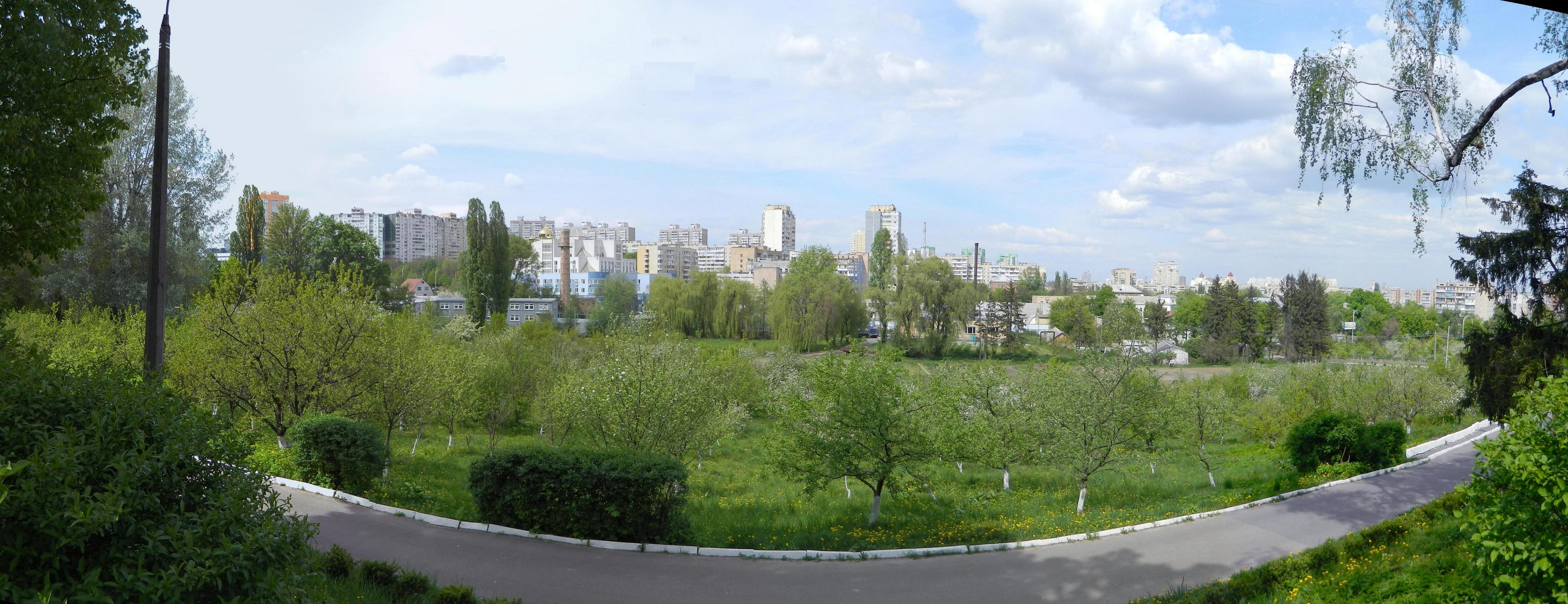 Ukraine. Kyiv. National ecological and naturalistic center of school student. Verger